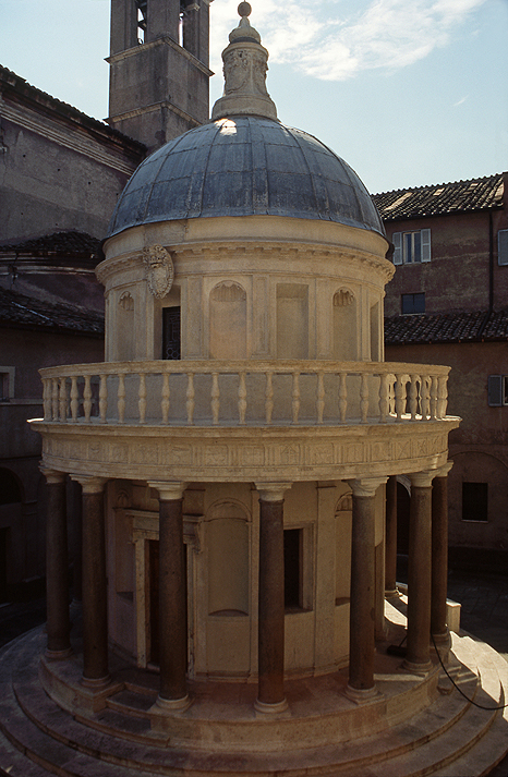 Rome. San Pietro in Montorio. Tempietto